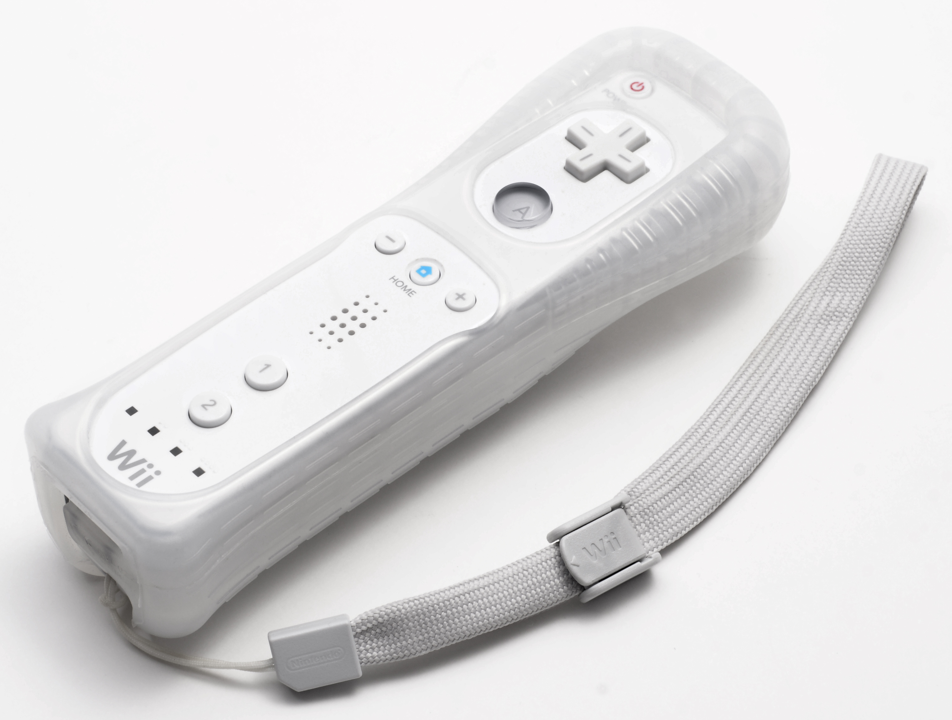 A Wiimote, with a strap and a condom on.